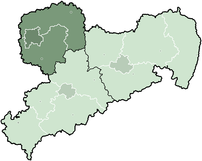 Map of the state Saxony in Germany before 2008, government region Leipzig highlighted.